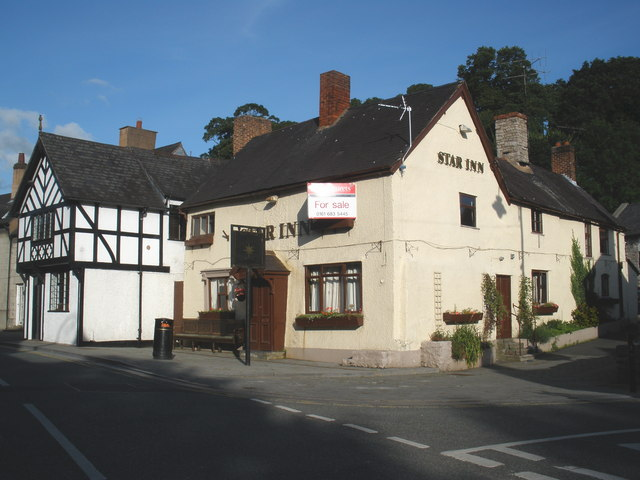 The Star Inn, Clwyd Street, Ruthin